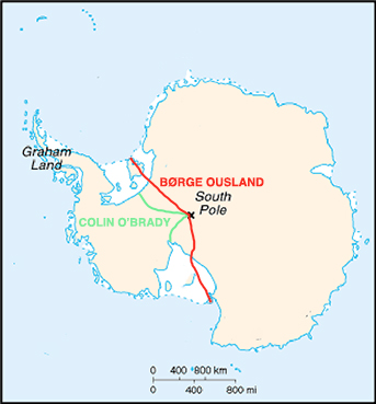 Shows the routes of Børge Ousland and Colin O'Brady for crossing Antarctica.